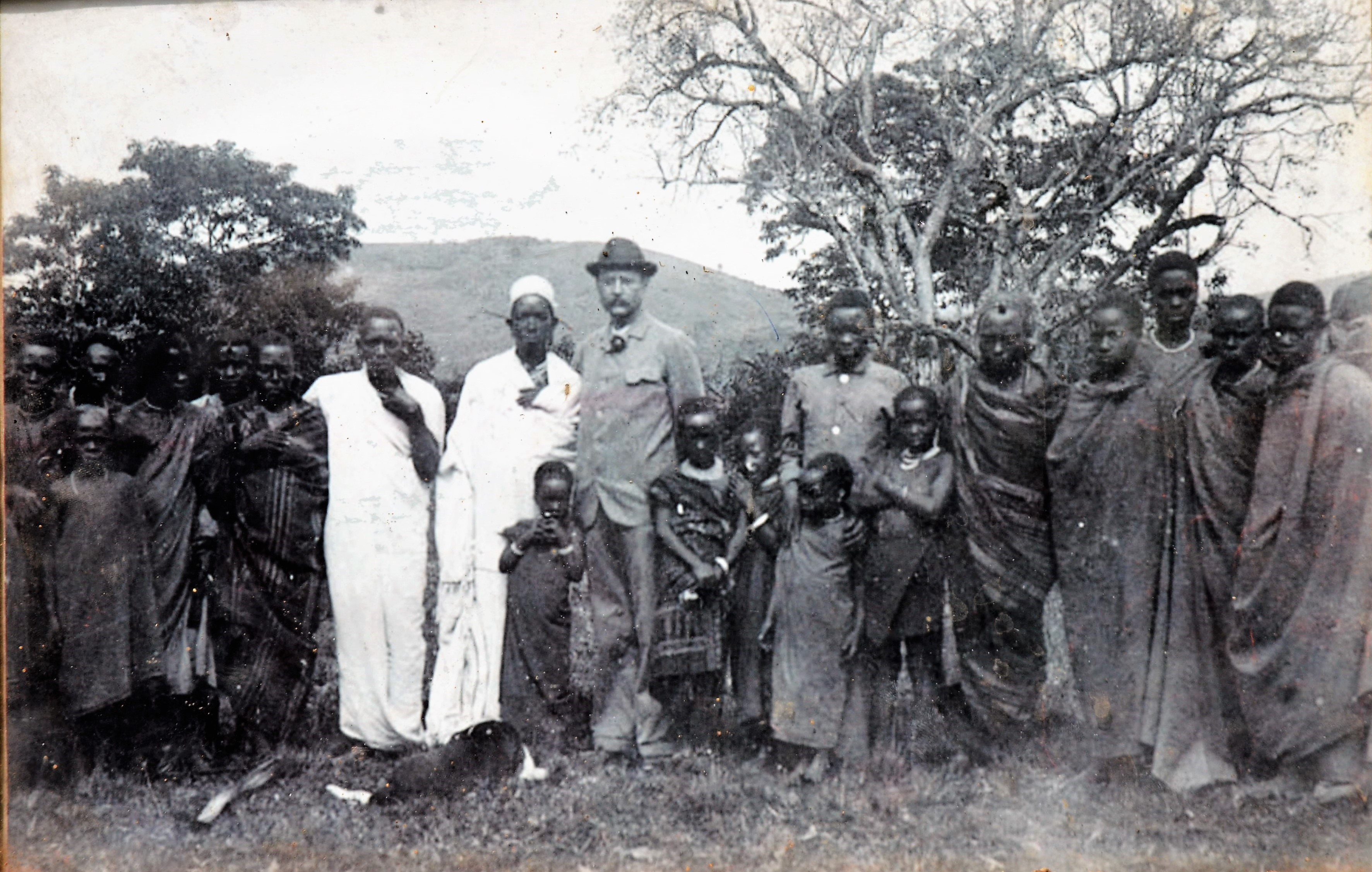 Later chief Meli as boy standing next to Dr.Hans Meyer visiting the Meli family before his Kilimanscharo ascent.